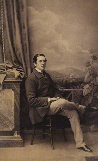 by Unknown photographer, albumen print, early 1860s